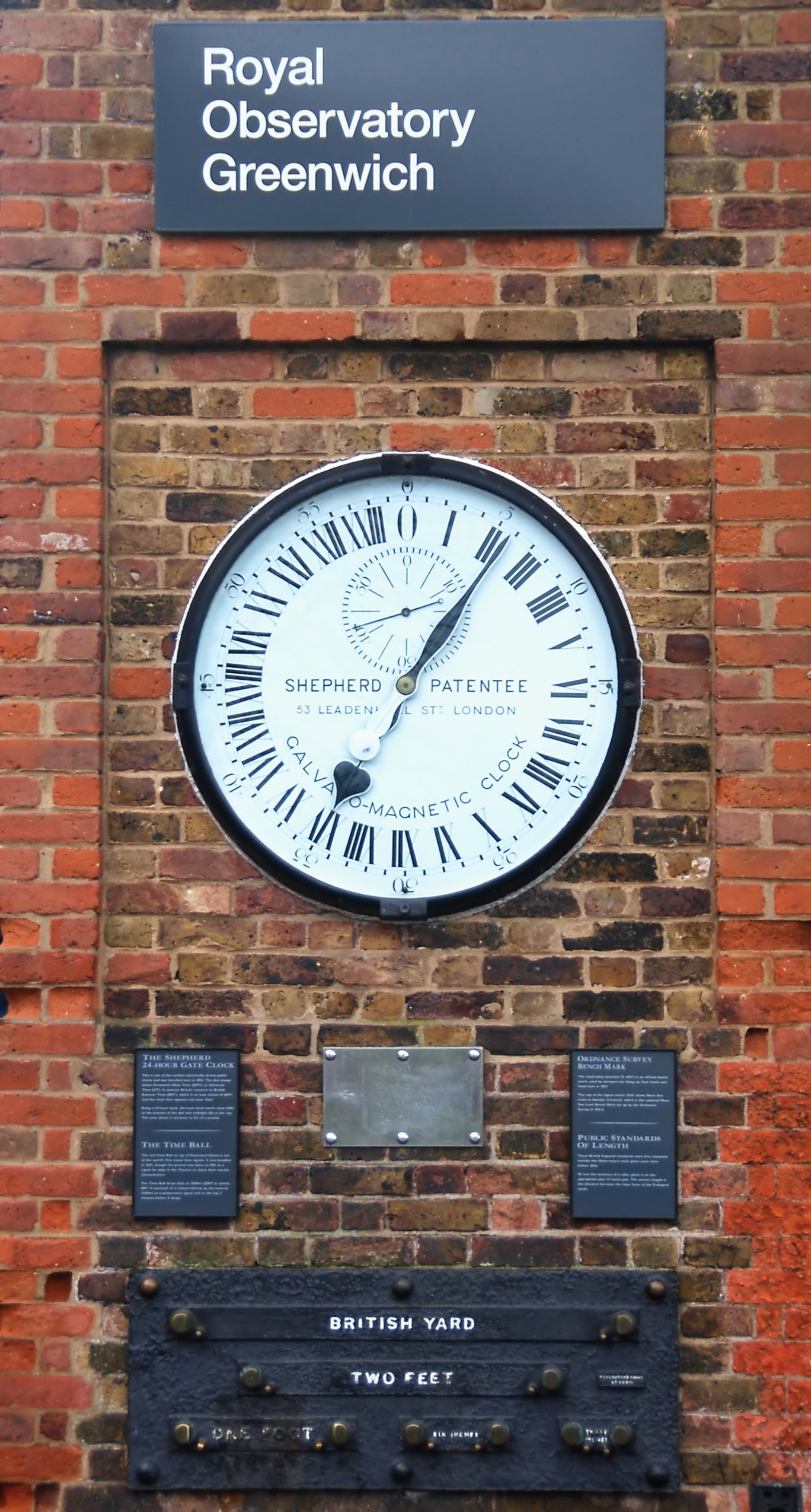 Shepherd gate clock at the Royal Observatory, Greenwich, UK. At 14:05:42 (02:05:42 pm)